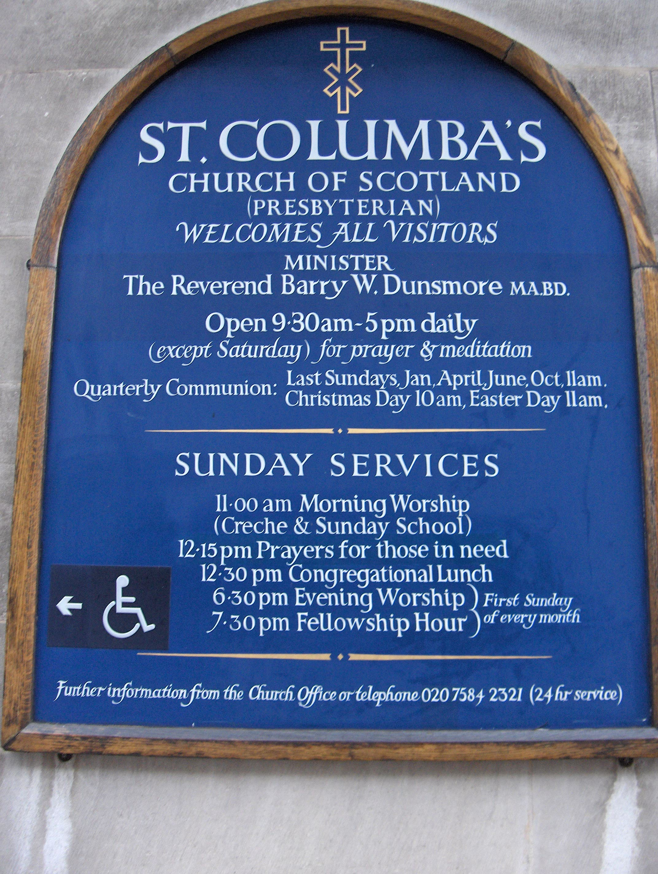 Sign outside St. Columba's Church, Pont Street, London